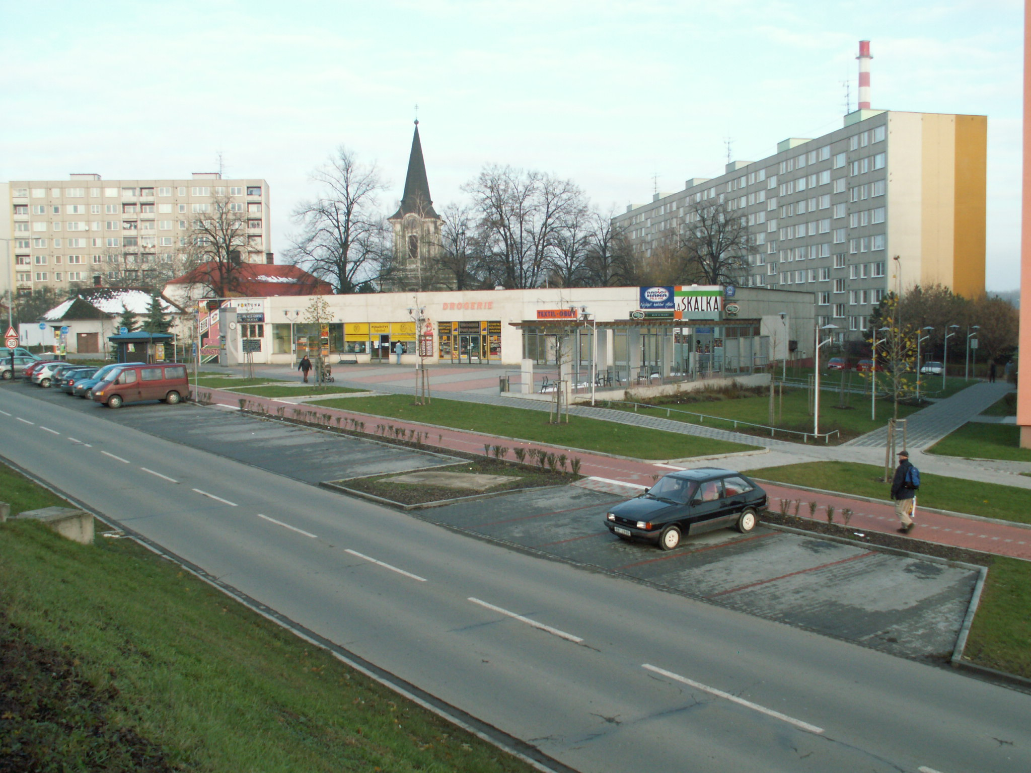 Předmosti by Přerov. Court, 2007